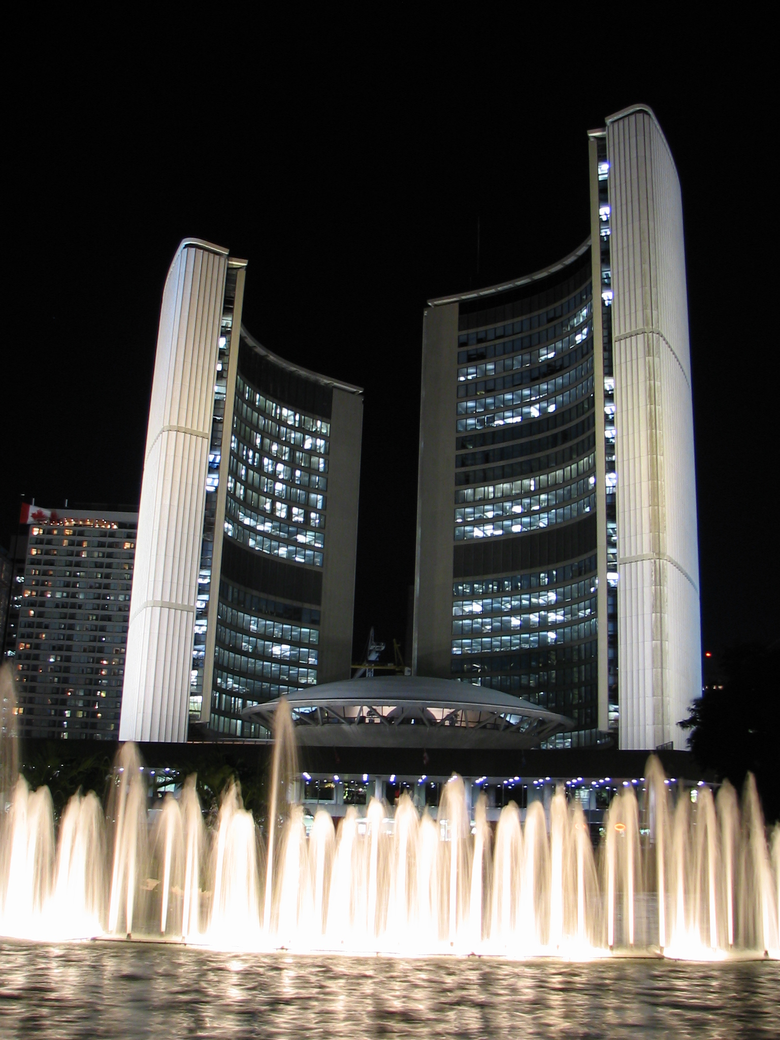 Toronto City Hall at night. Toronto, Canada.